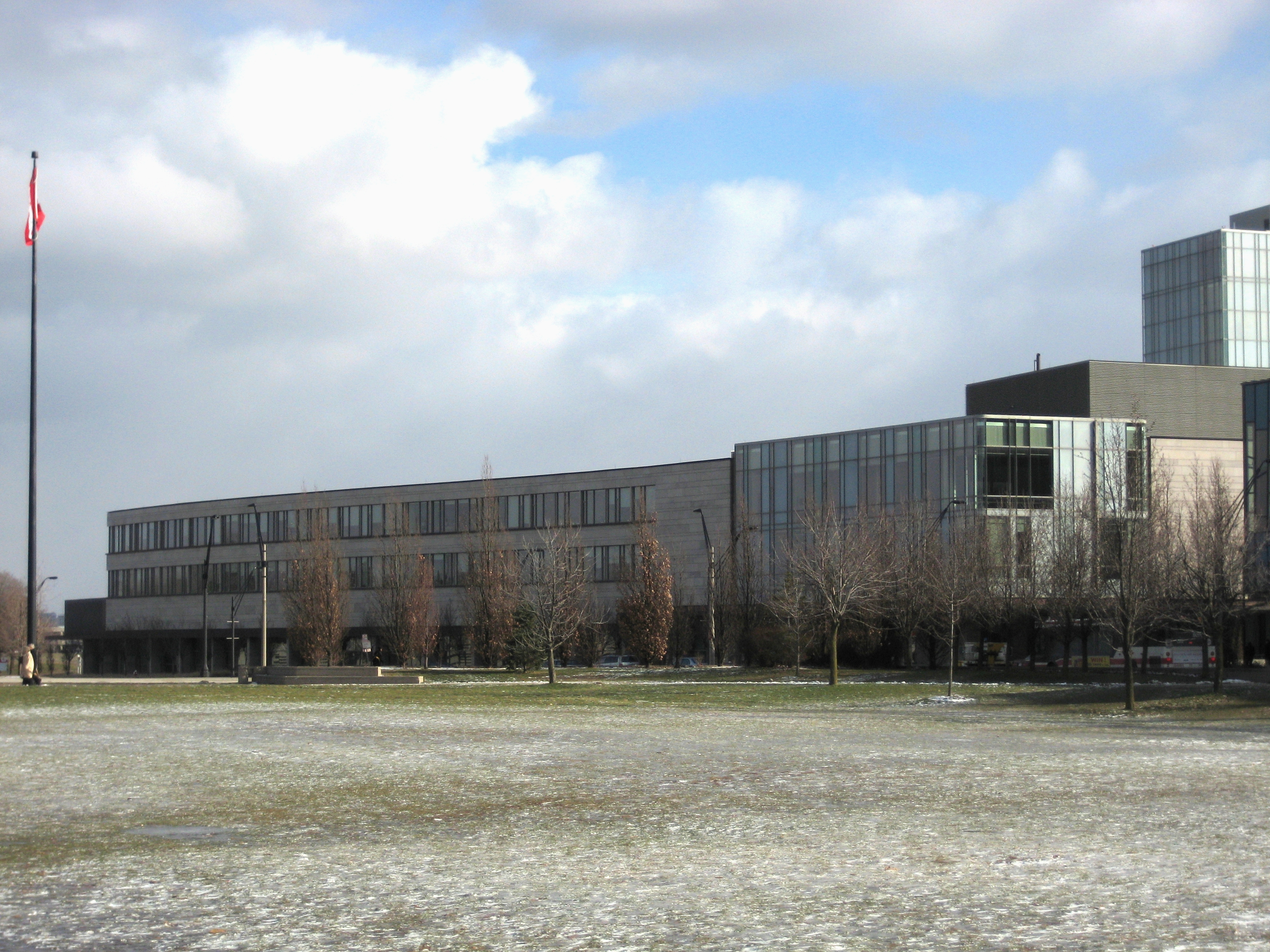 The Seymour Schulich Building, York University